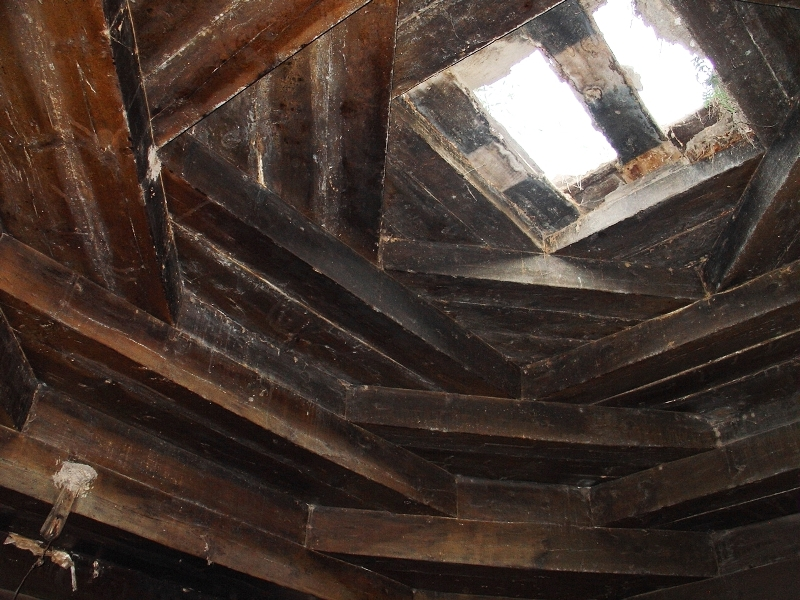 Javakhetian living room. Saro